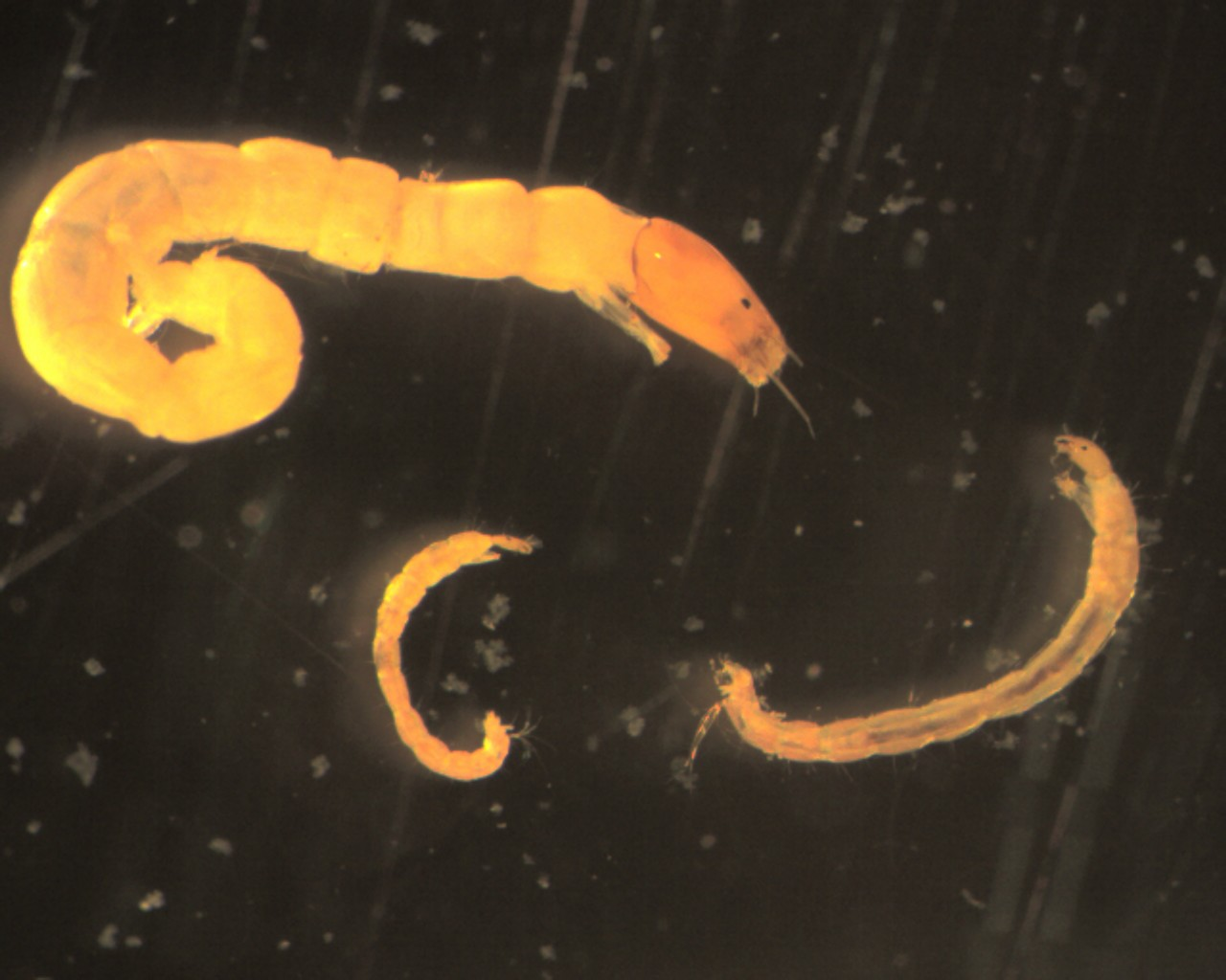 Three Chironomidae larvae from the Vermont EPSCoR Streams Project